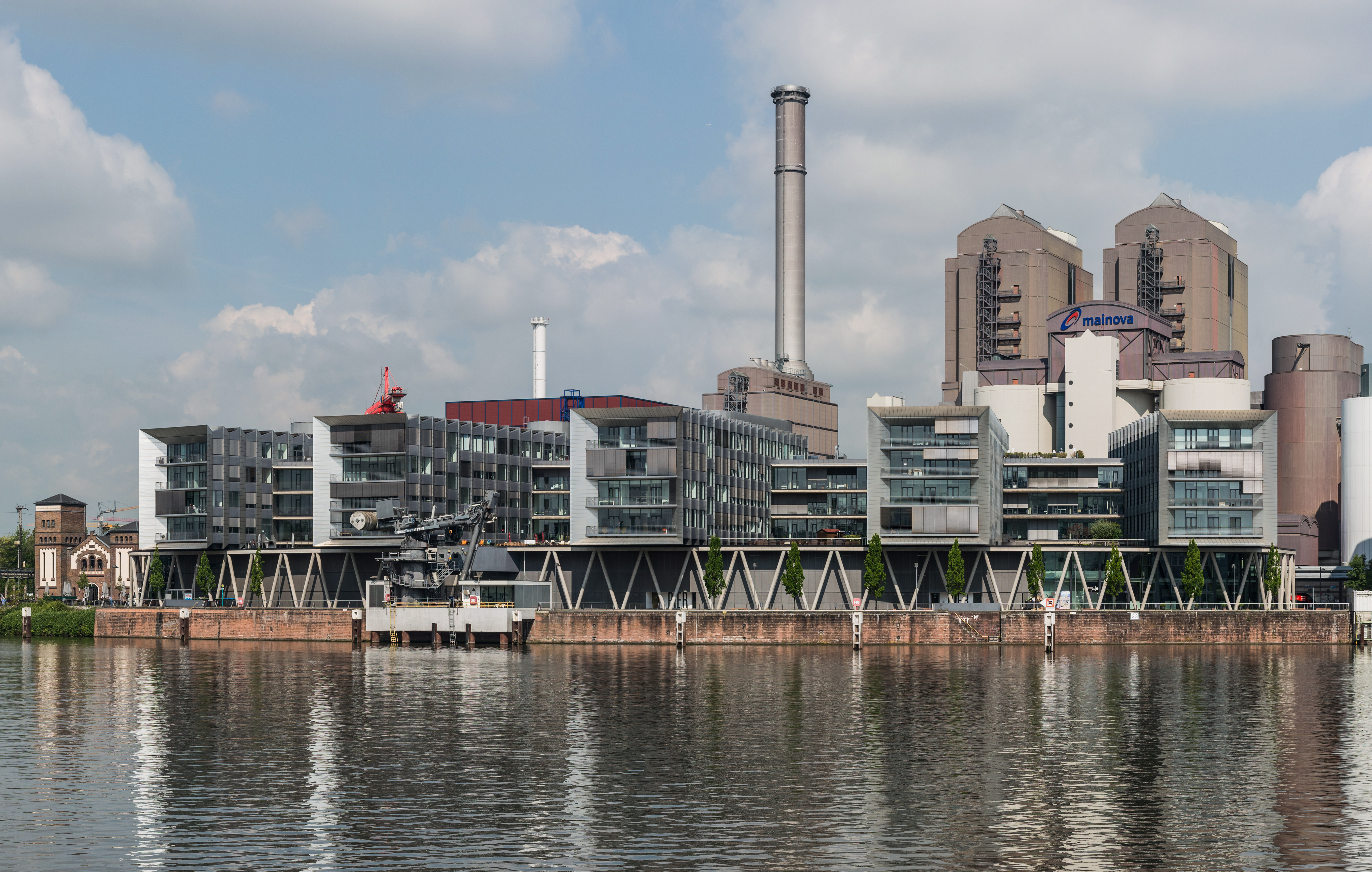 A southeast view of the Westhafen-Pier building, Frankfurt am Main. The heating power plant west is visible in the background